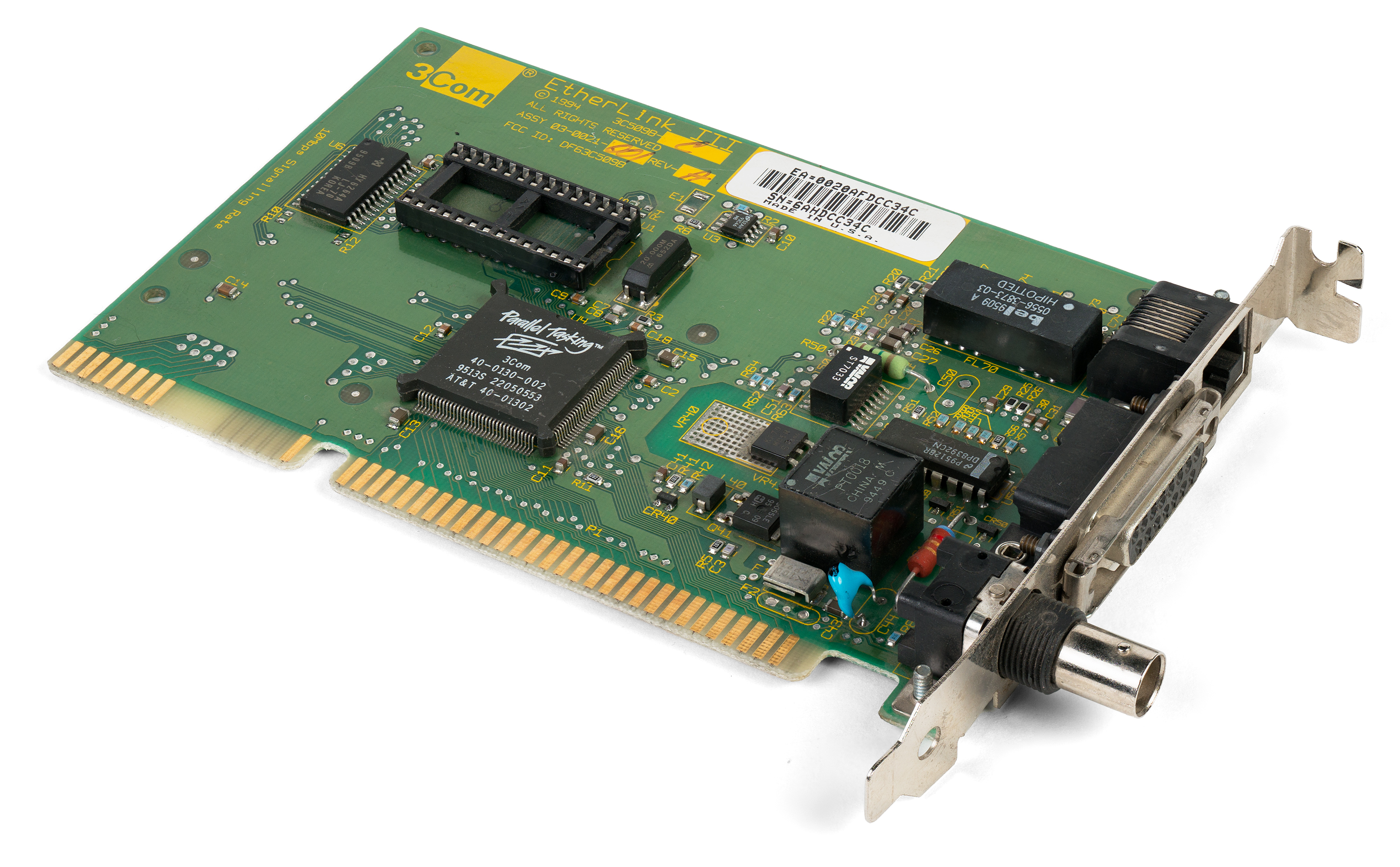 3Com 3C509BC Ethernet NIC from 1994. 10BASE2, 10BASE5 (15-pin AUI) and 10BASE-T connectors. 16-bit ISA card.